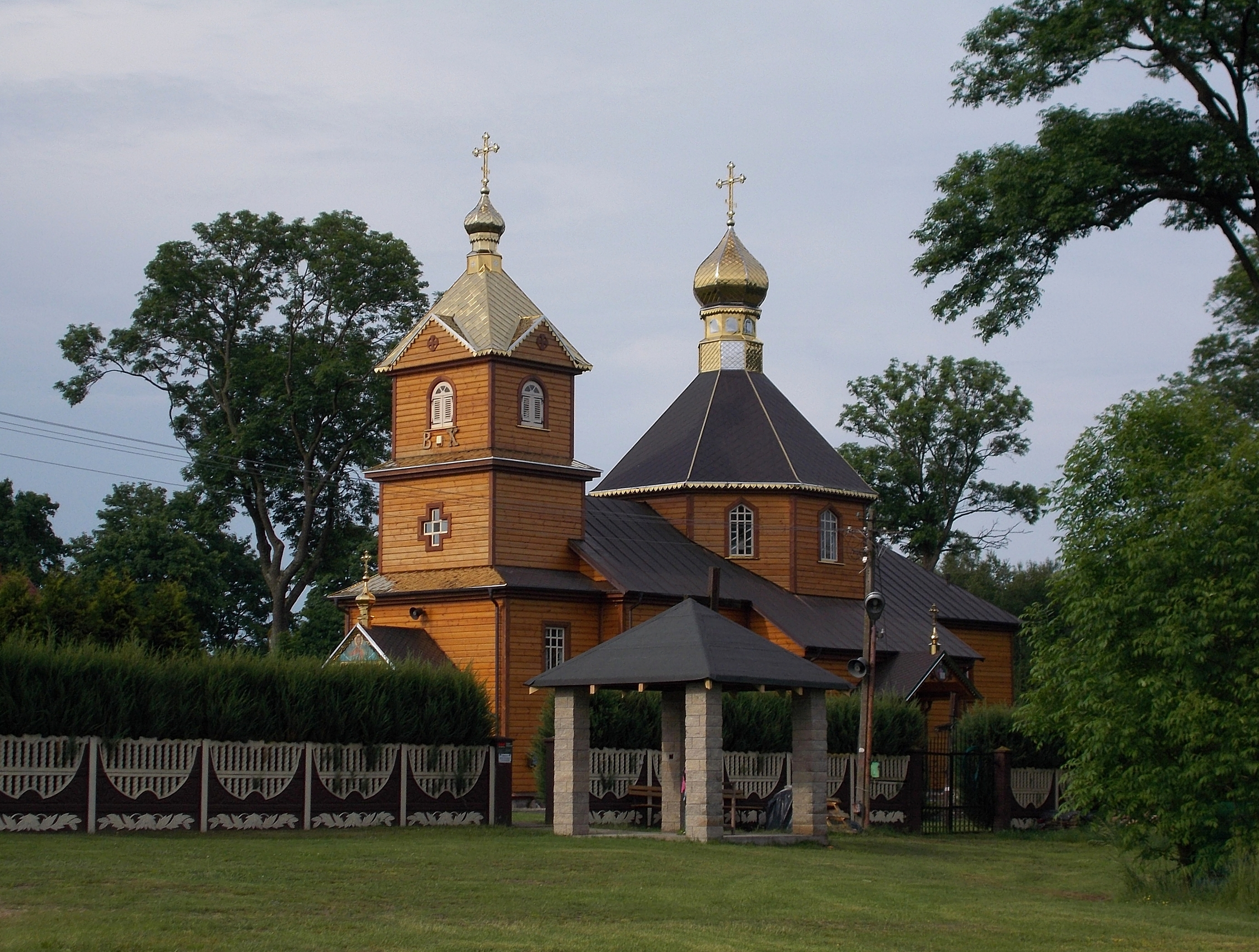 Orthodox Saints Cosmas and Damian church in Anusin